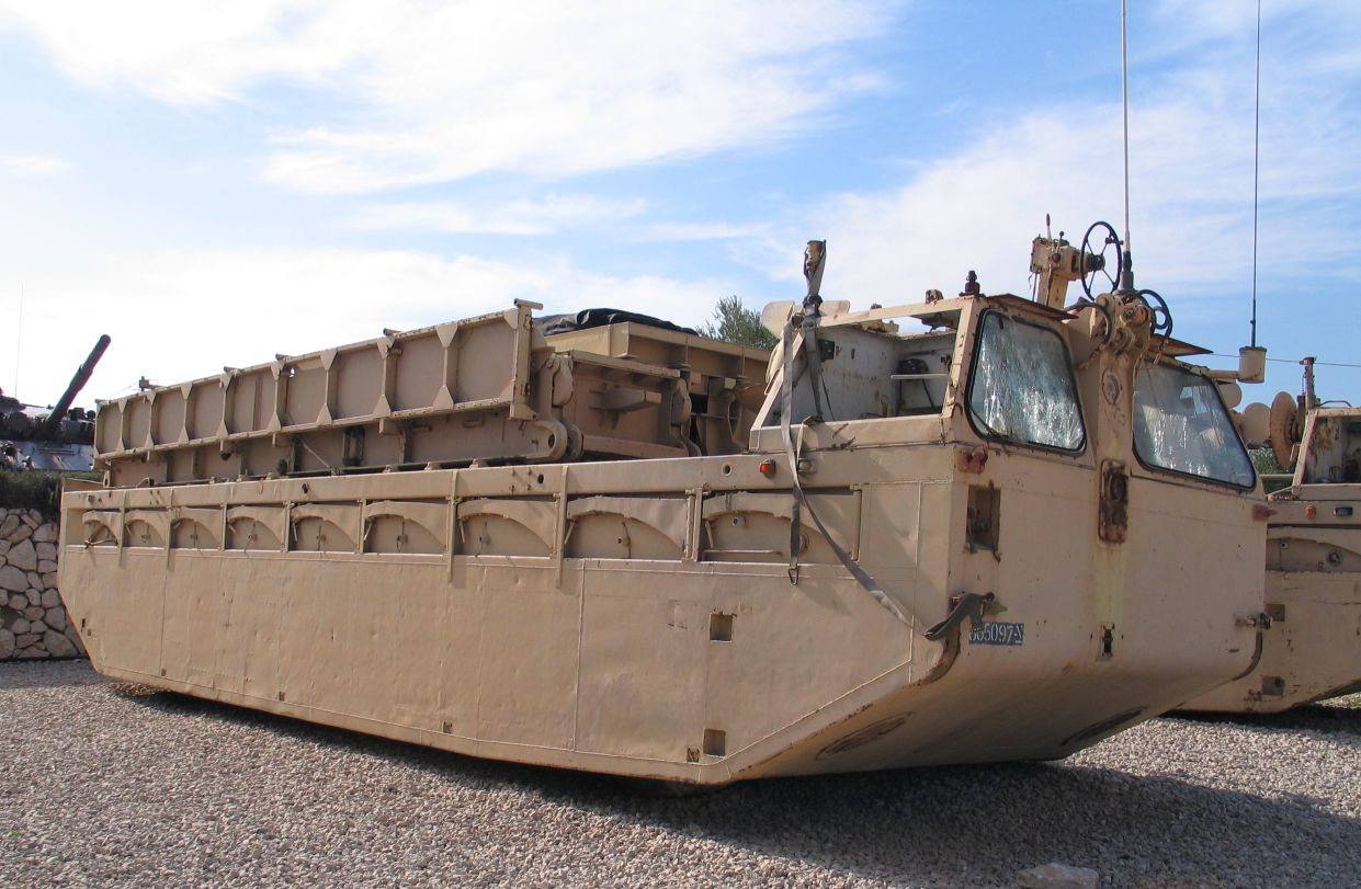 Description: EWK-Gillois bridgelayer (IDF designation Timsach) in Yad la-Shiryon Museum, Israel. 2005. Source: Photo by me, User:Bukvoed.